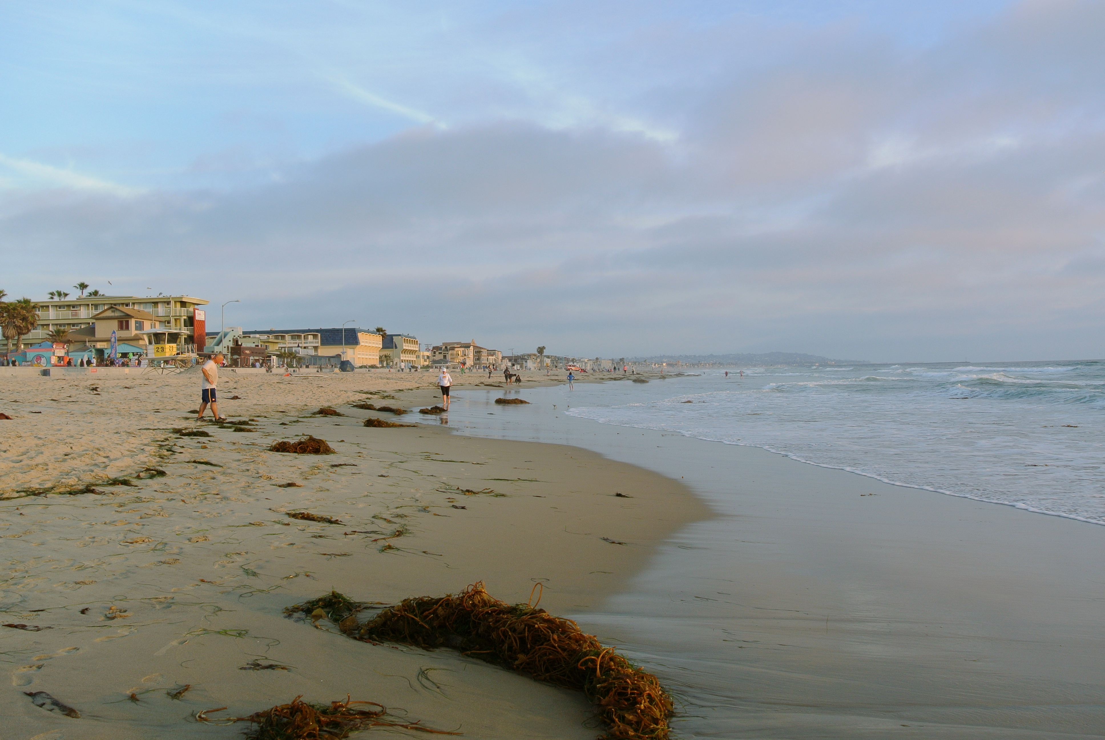 Pacific Beach looking southwards